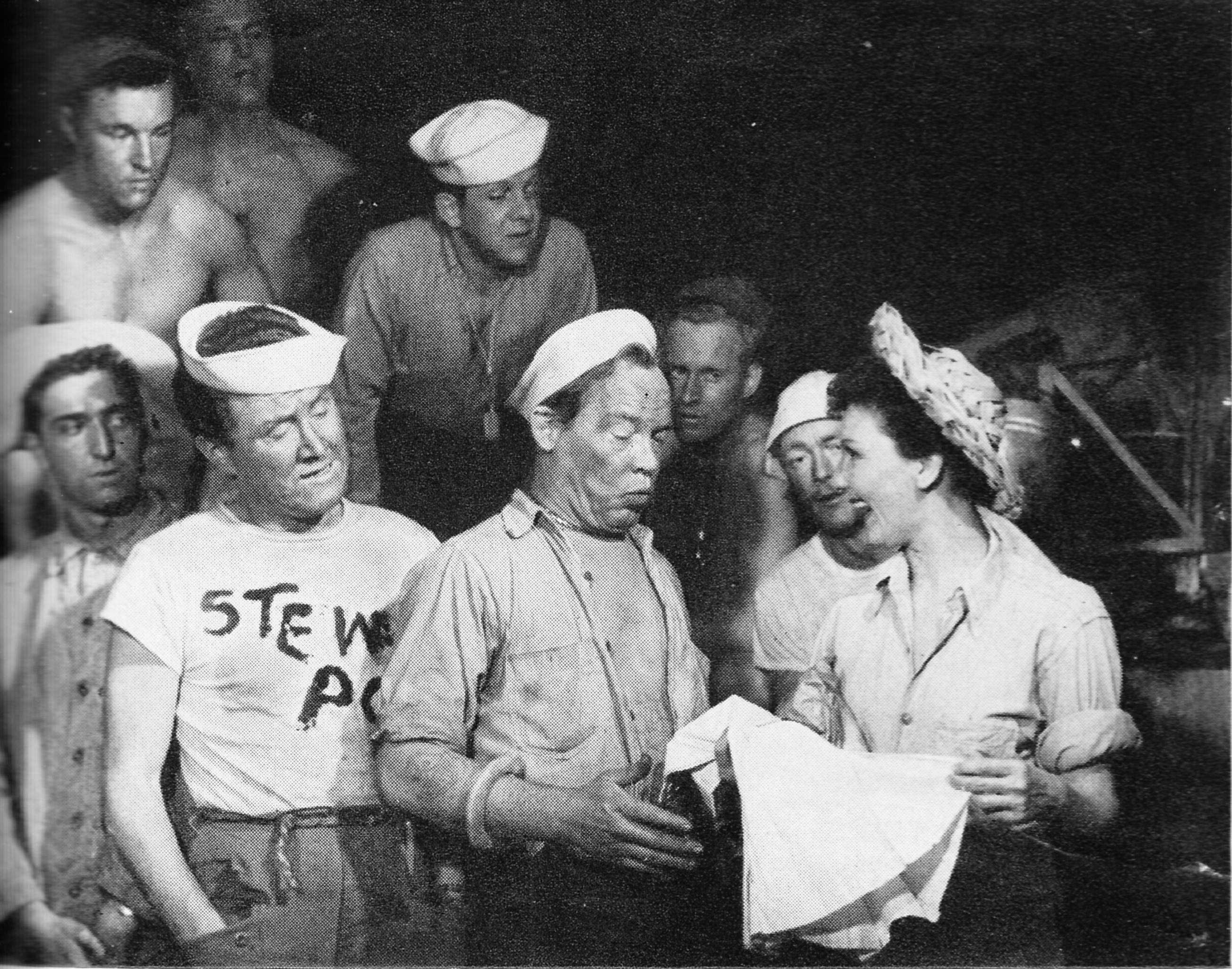 Mary Martin praises Luther Billis's (Myron McCormick) laundry skills as his friends look on.